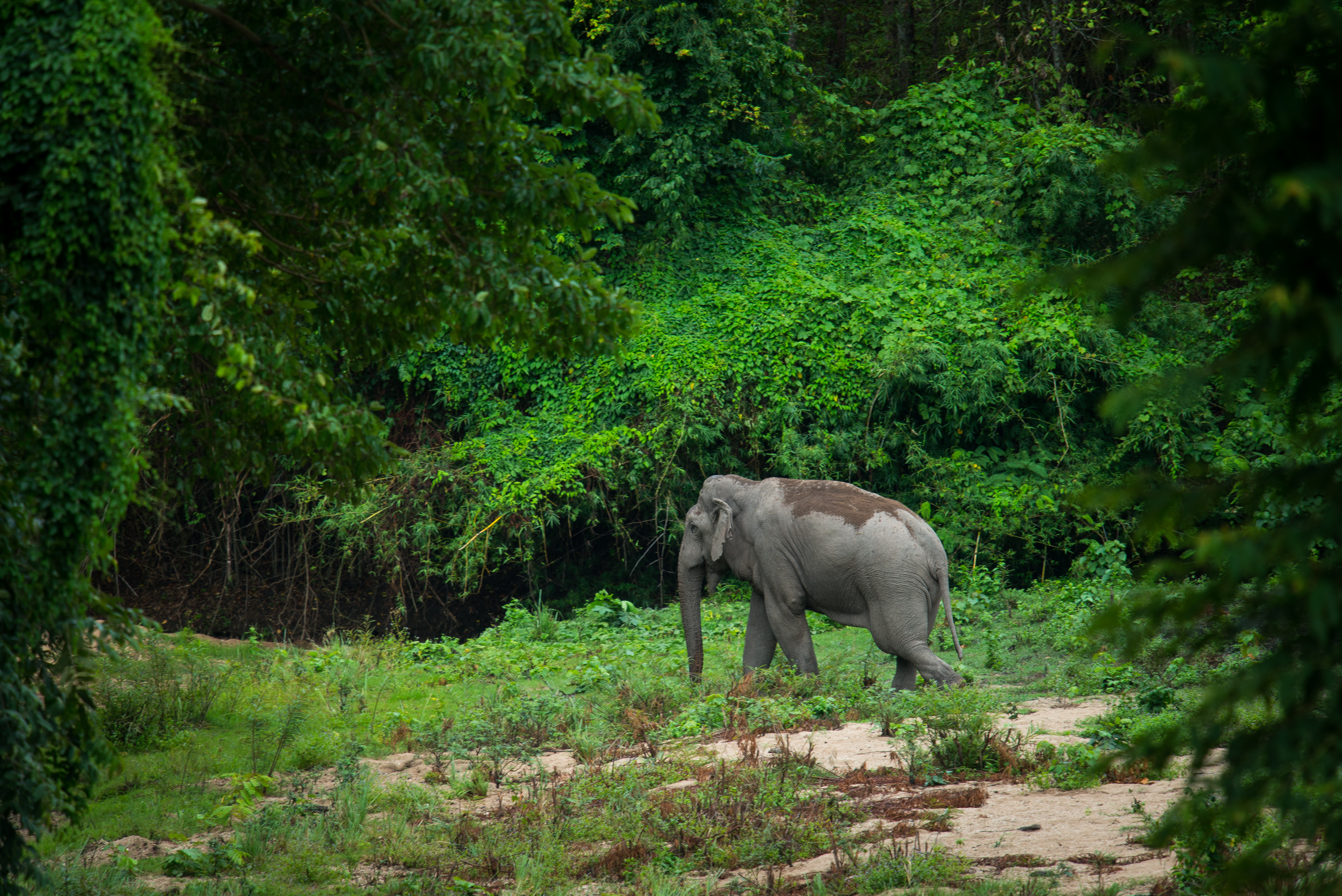 Huai Kha Khaeng Wildlife Sanctuary This photo is published under Creative Commons Attribution-Share-Alike Licence, means you are free to use this photo with attribution under same licence. When giving attribution, please use following; Owner: Thai National Parks Link